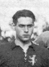 Spanish national team which played against Belgium at the 1920 Summer Olympics. Line up: José María Belauste (did not play), Domingo Gómez-Acedo, Ricardo Zamora, Juan Artola, Patricio Arabolaza, Pichichi, Mariano Arrate, Ramón Eguiazábal, Joaquín Vázquez, Agustín Sancho, Paco Bru (coach), Manuel Lemmel (assistant coach), Pedro Vallana and Francisco Pagaza.